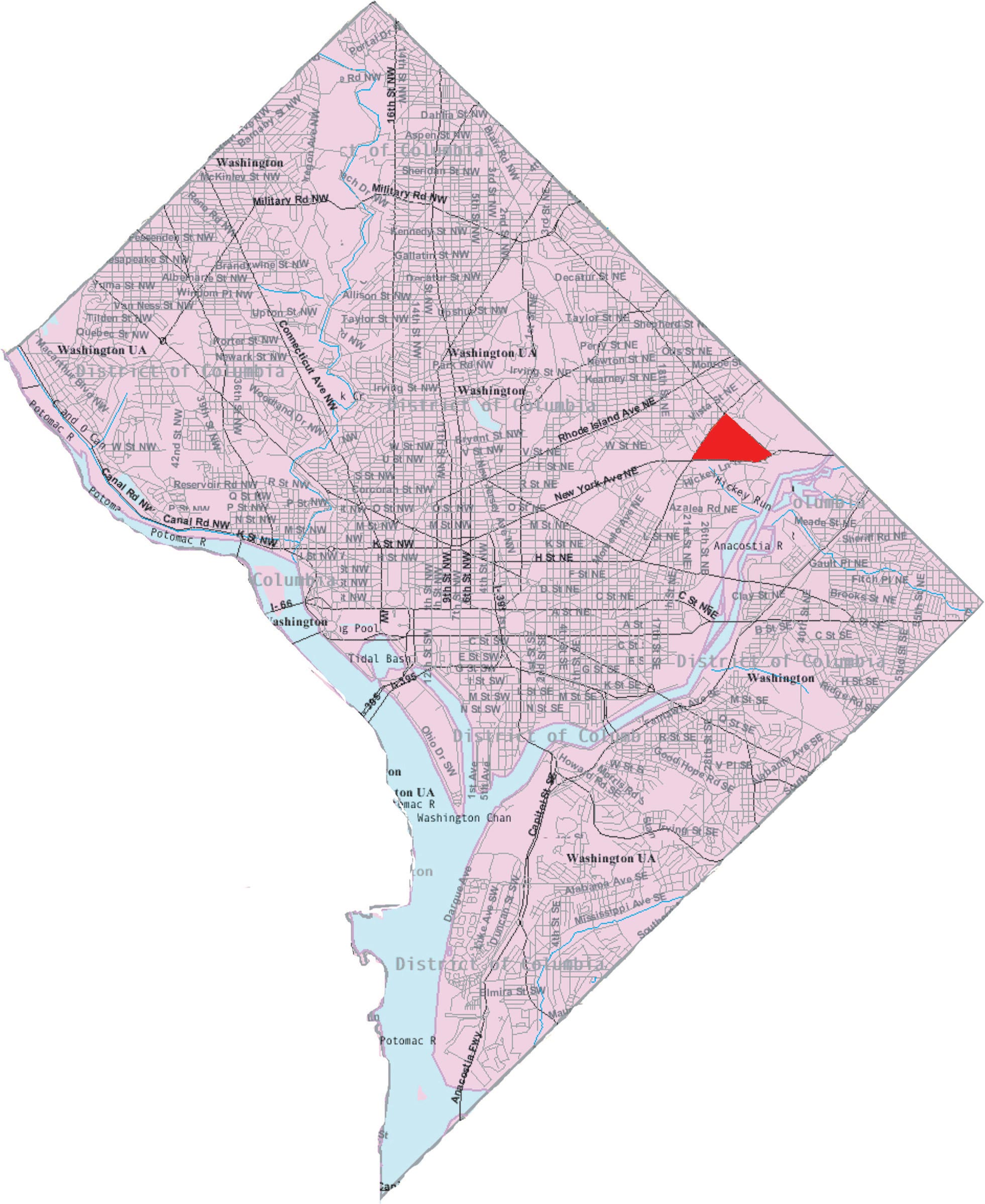 This image is a modified version of a self-generated reference map from the U.S. Census Bureau's American Factfinder at by Wikipedia user Msclguru.